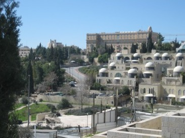 Jerusalem, New City (Hotel King David). / Jeruzalem, Novi grad (hotel King David).